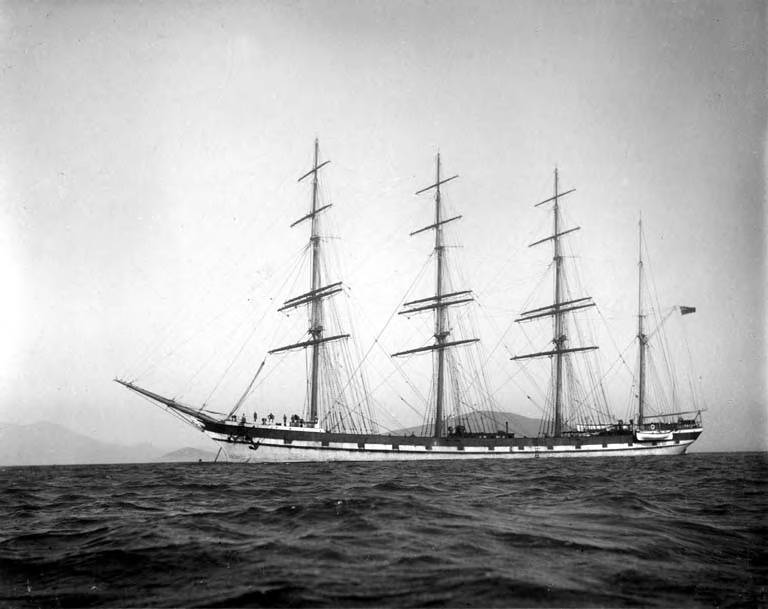 Handwritten on verso: Robt. Duncan, 4 m. bark In 1920, she was bought by Rolph Navigation & Coal Co. and renamed Wm. T. Lewis after a Captain who died in the San Francisco Bay area that year. She was laid up and hulked in 1921. The figurehead from this ship is owned by the Seattle Museum of History and Industry (p. 315). [Notes from Gordon Newell, ed., The H.W. McCurdy Marine History of the Pacific Northwest (Seattle: Superior Publishing Co., 1966)]